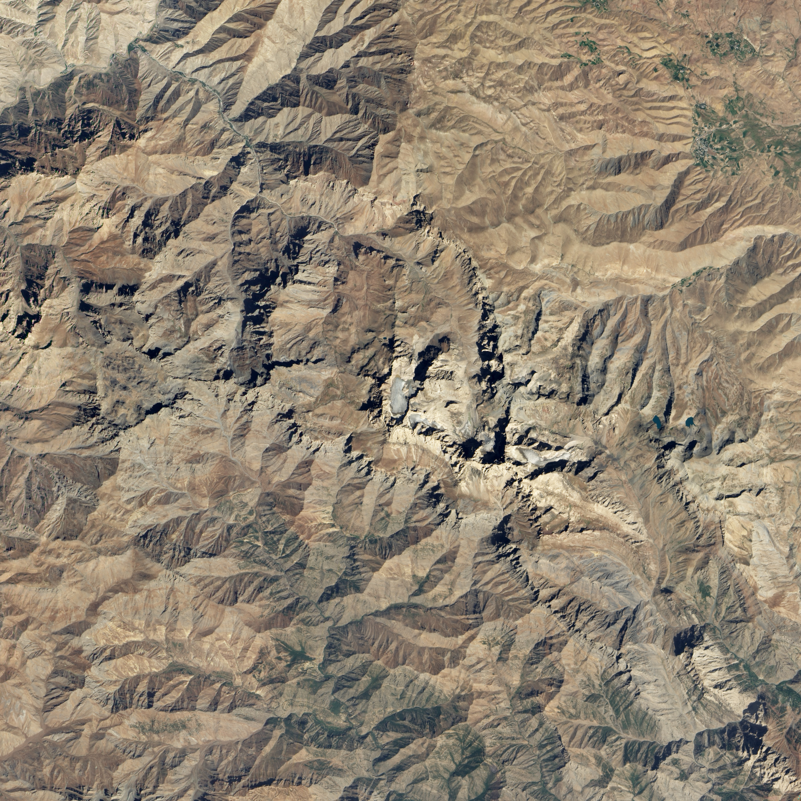 About two-thirds of Turkey’s glaciers lie within the Taurus Mountains, a chain of peaks that stretch from the Mediterranean coast toward the borders of Iran and Iraq. The southeastern portion of the range supports Turkey’s largest glaciers. On September 9, 2012, at 10:30 a.m. local time, the Advanced Land Imager (ALI) on NASA’s Earth Observing-1 (EO-1) satellite acquired this view of glaciers near Mount Uludoruk, the second tallest mountain in Turkey. At 4,135 meters (13,566 feet) Uludoruk trails only Mount Ararat. Uludoruk’s glaciers are located within bowl-shaped hollows called cirques that are etched into the sides of steep ridges. The features form when snow piles up in a depression, accumulates into a glacier, and broadens as it spills down the slopes into adjacent valleys.